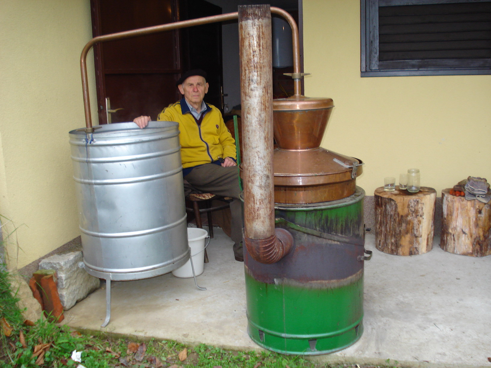 Traditional distillation of rakia (plum brandy) in Medjimurje (Croatia) Tradicionalno pečenje rakije (šljivovice) u Međimurju (Hrvatska)